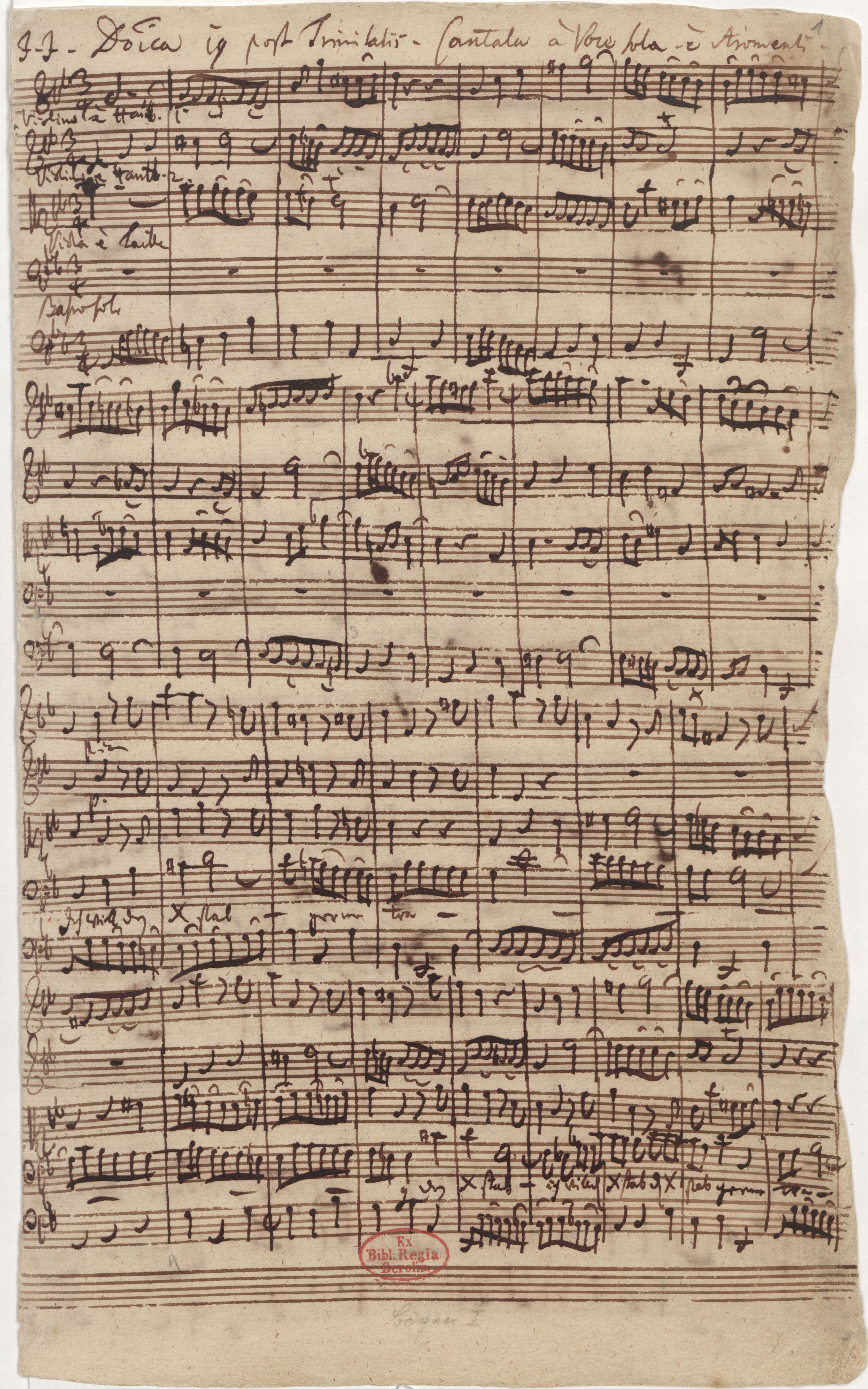 First page of autograph manuscript of opening Bass aria from Ich will den Kreuzstab gerne tragen, BWV 56